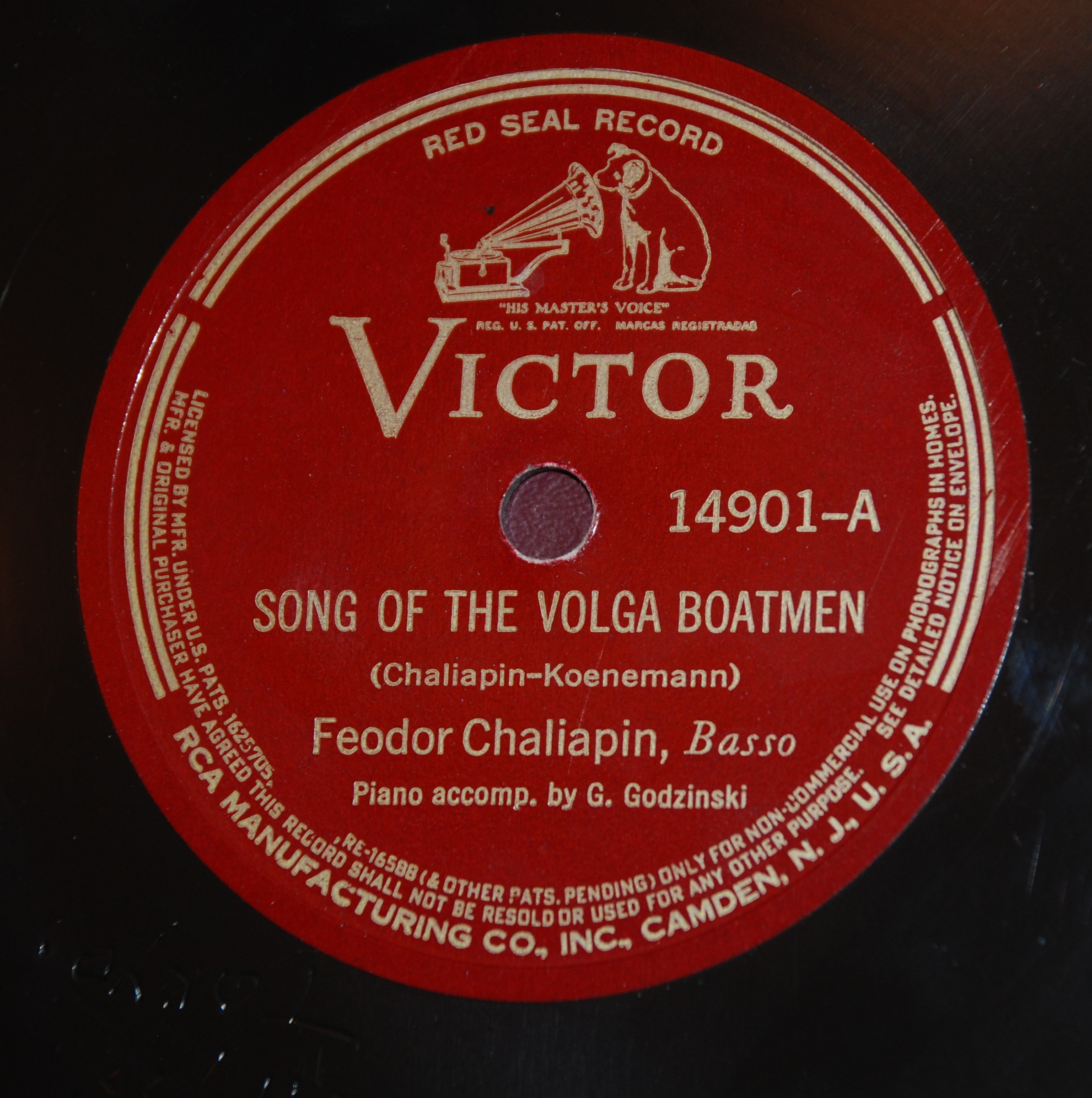 Feodor Chaliapin - Song of the Volga Boatmen - Victor 14901A b